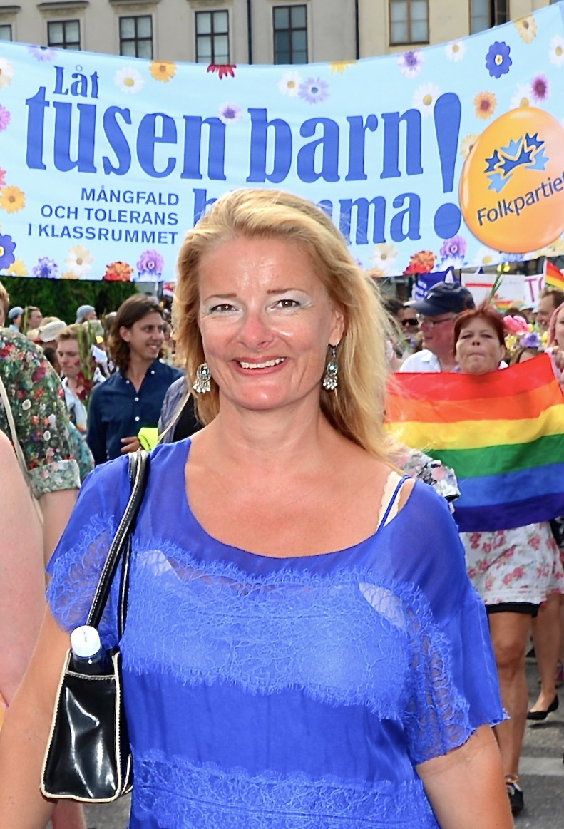 Lotta Edholm in the final Pride Parade during Stockholm Pride in 2014.